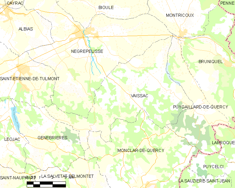 Map of French municipality Vaïssac